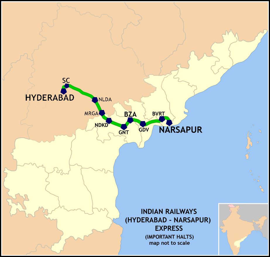 (Hyderabad - Narsapur) Express Route mapCurrent operator: SCR/South Central Railway Zone of Indian Railways